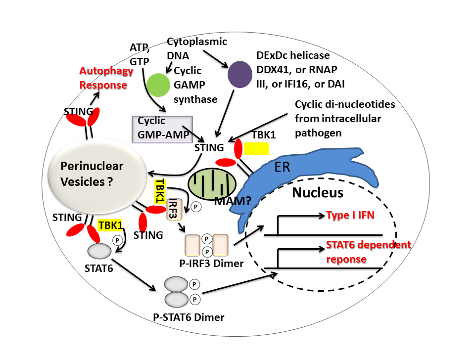 STING signaling pathways